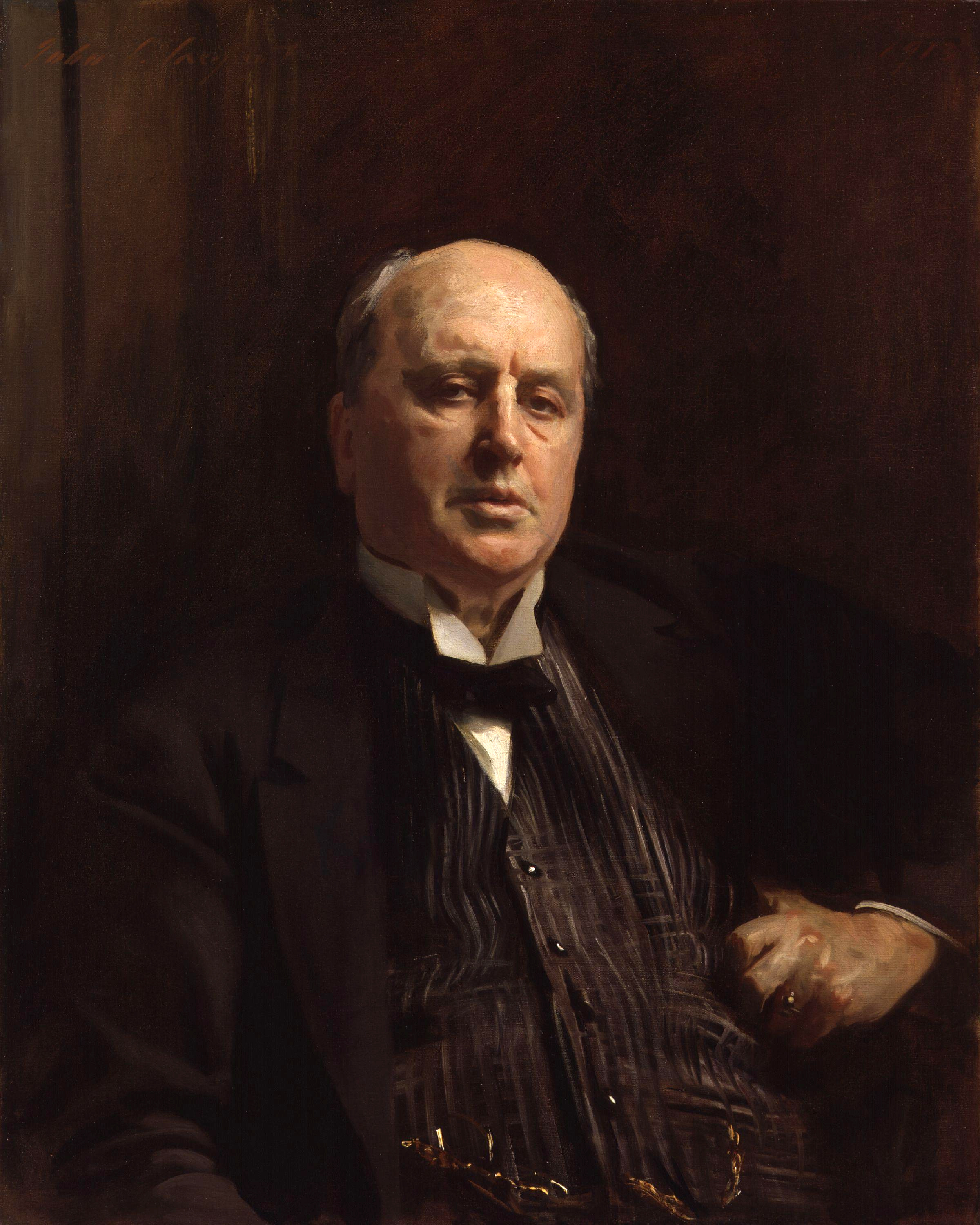 Henry James, by John Singer Sargent (died 1925).